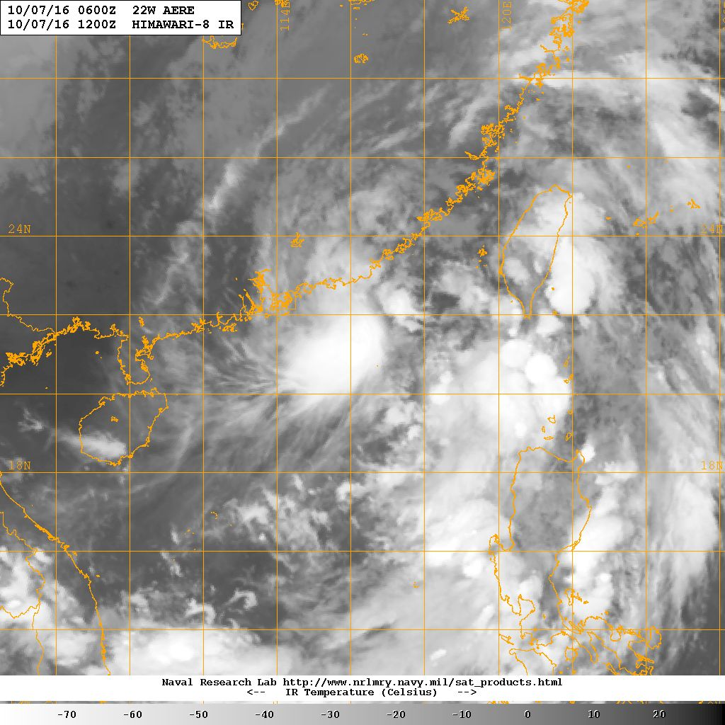 Severe Tropical Storm Aere during its peak intensity south of Guangdong, China on October 7, 2016